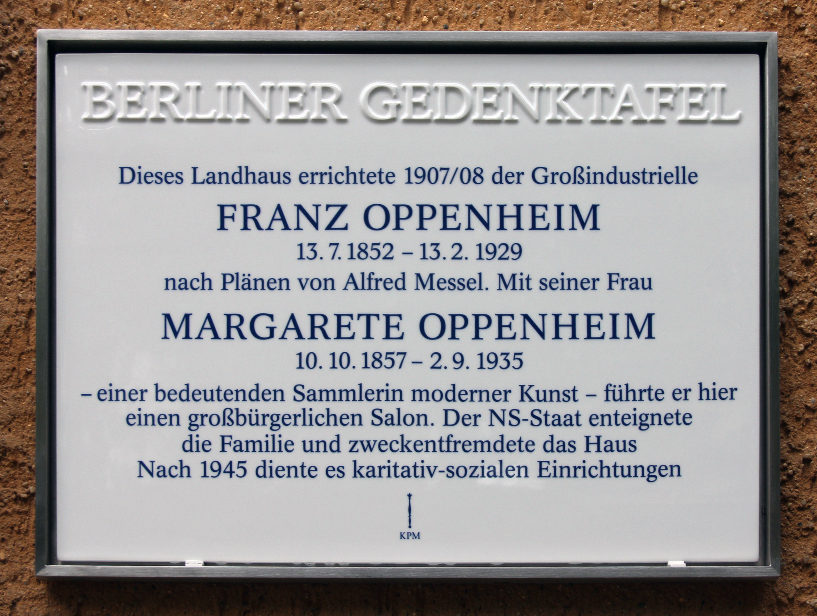 Berlin memorial plaque, Franz Oppenheim, Zum Heckeshorn 38, Berlin-Wannsee, Germany